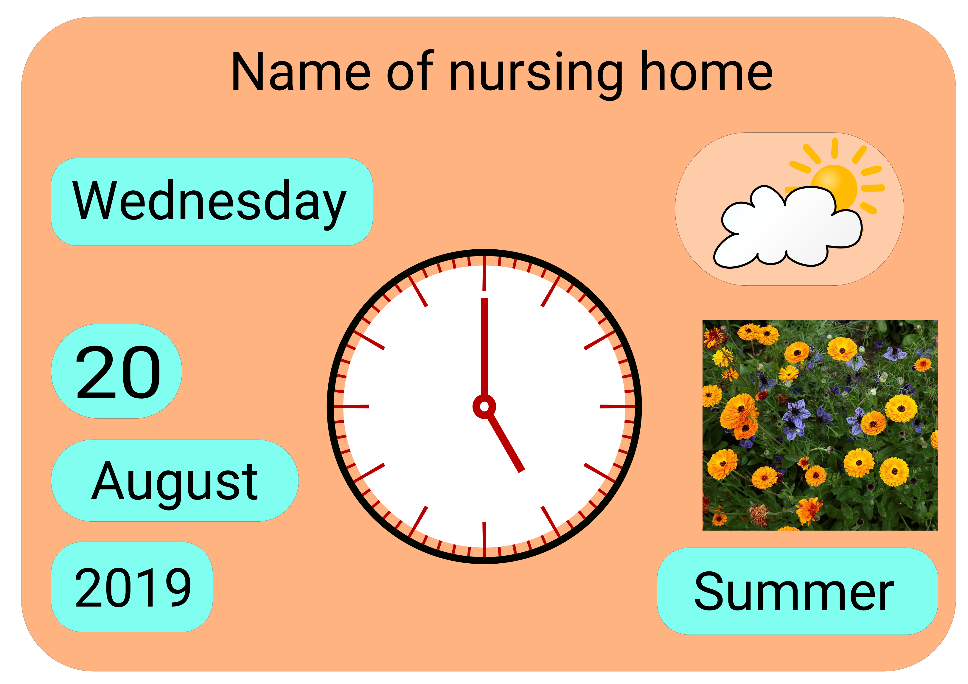 People with dementia or in post-operative delirium need cognitive stimulus to help keeping their reality orientation. Presentation of information about time, place or person eases the understanding of the person about its surroundings and his/her place in them. Reality orientation boards are placed on the wall and their information is updated electronically. This design is free to use, also for actual products.